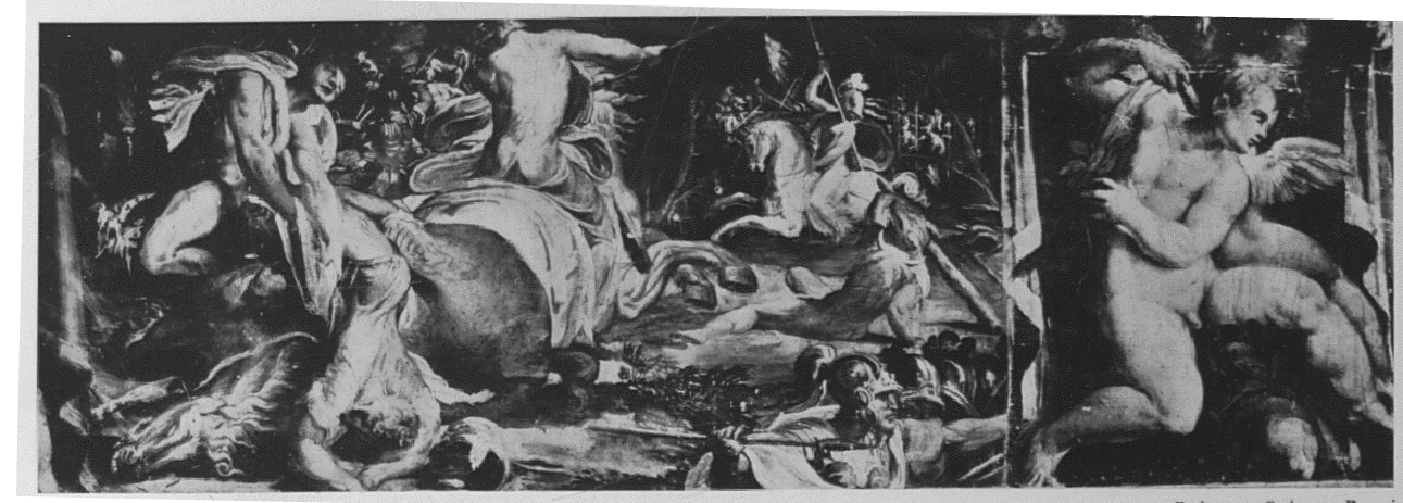 Nicolò dell'Abate, Camilla frescoed frieze - Palazzo Poggi, Bologna